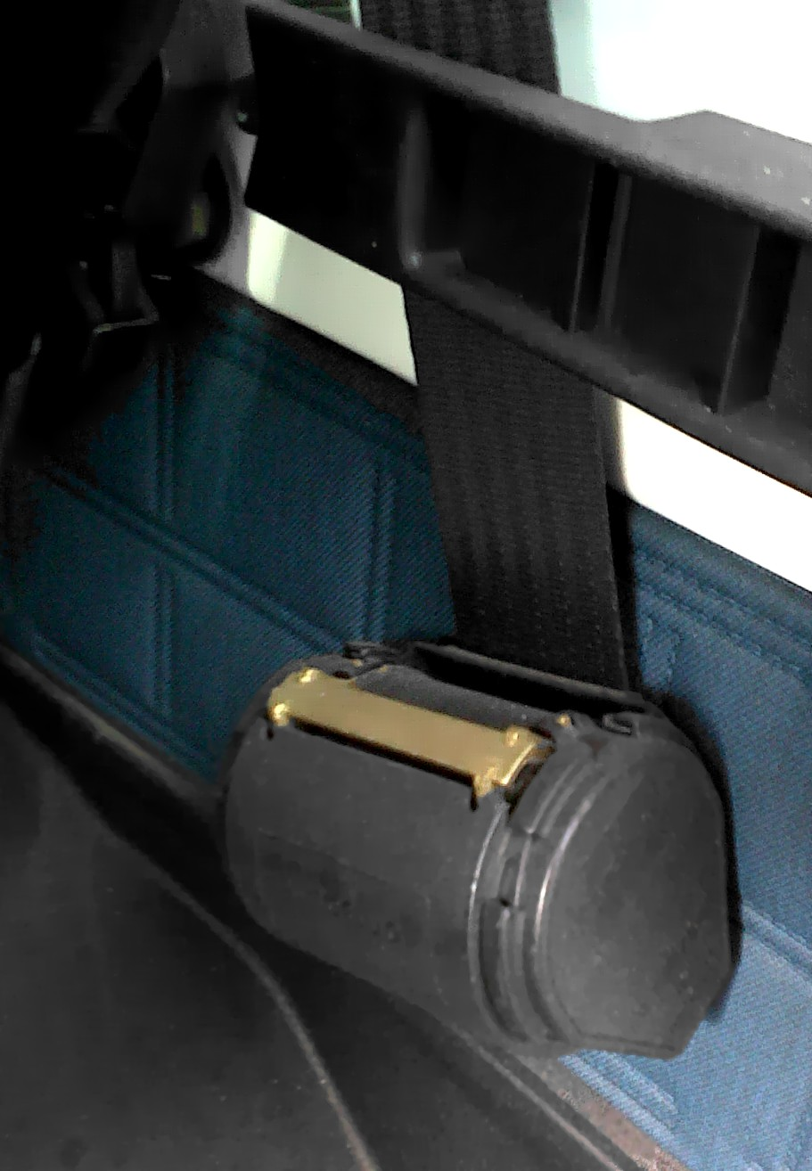 seat belt retractor of the Fiat 750 Panta